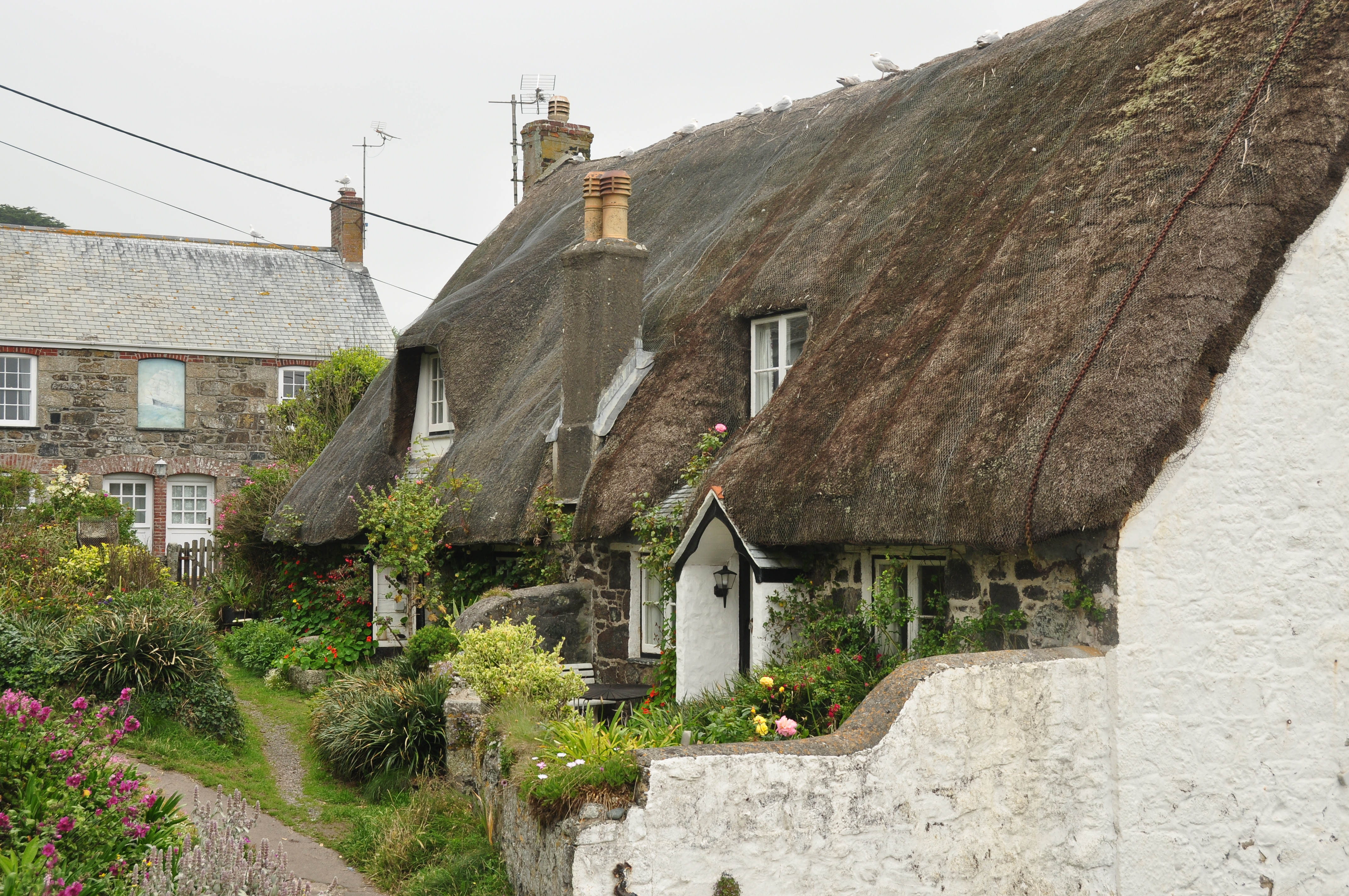 Thatched cottage in Cadgwith